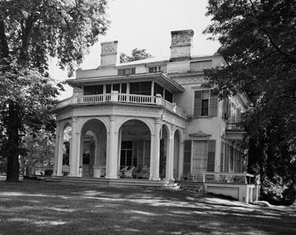 Montgomery Place, Annandale Road, Barrytown vicinity (Dutchess County, New York)(cropped)